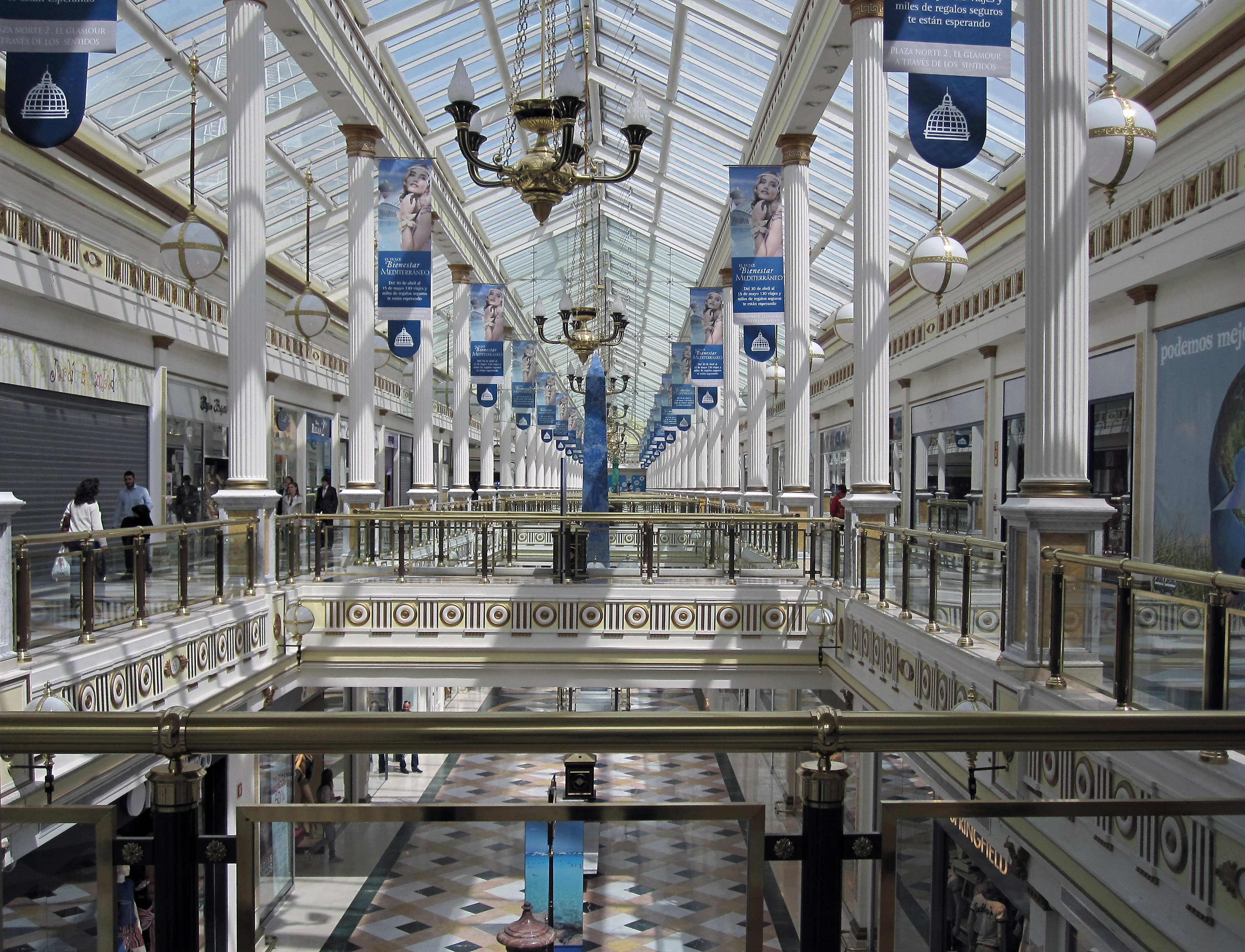 Plaza Norte 2, Commercial centre in north part of Madrid, Spain.